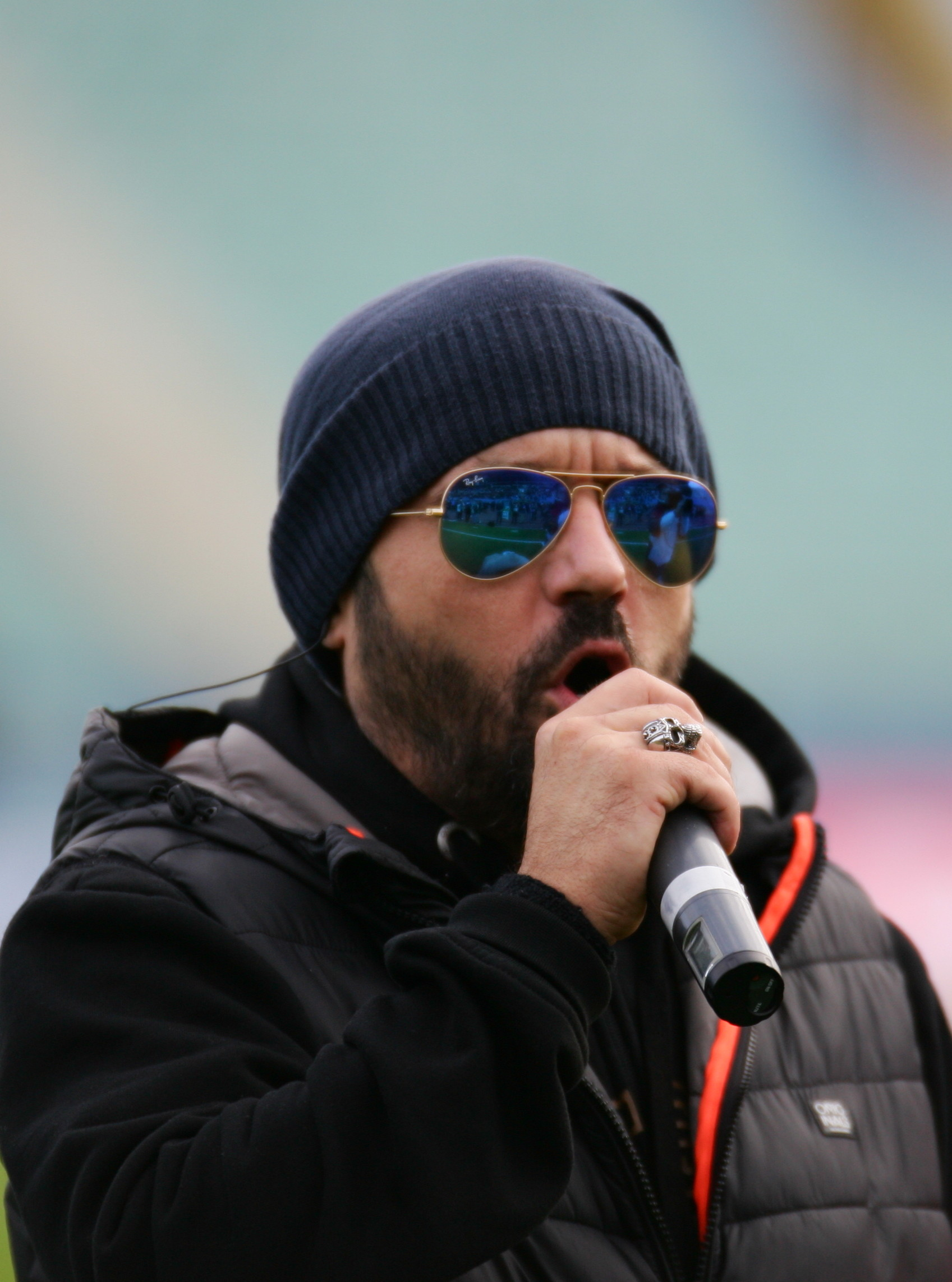 Dicho Hristov - Bulgarian pop singer